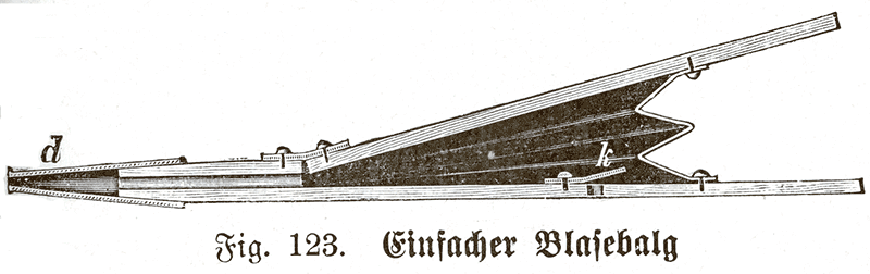 simple bellows